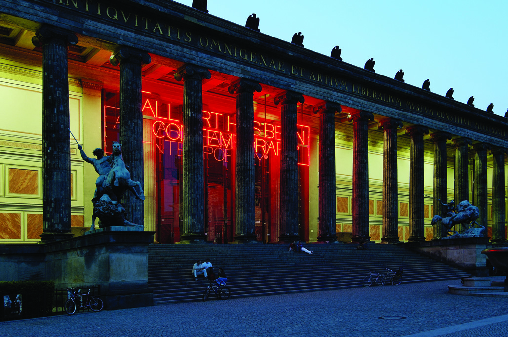 Altes Museum, Berlin, 2005